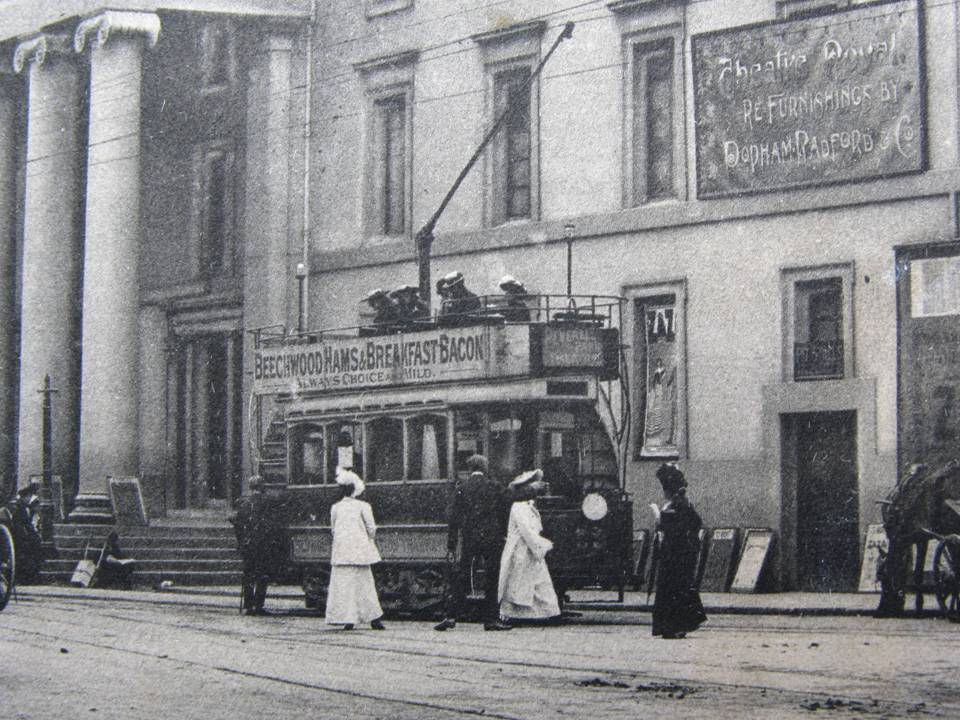 A Plymouth Corporation electric tram at the Theatre terminus before a journey through the town centre then north through Mutley Plain to Peverell.